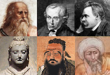 Philosophy sidebar 3